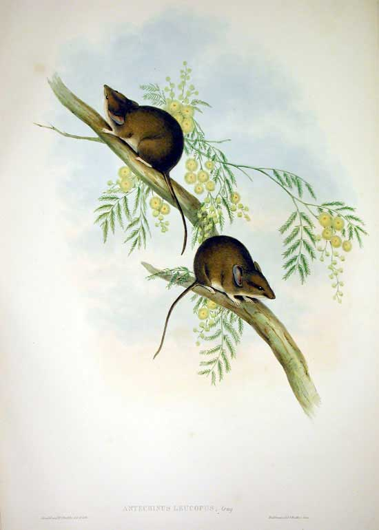 The White Footed Dunnart (Antechinus leucopus = Sminthopsis leucopus) is a marsupial that occurs of Tasmania and Australia.